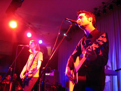 Blackfield - Steven Wilson (l.) and Aviv Geffen (r.), performing live with Blackfield on March 10, 2005, at the Canal Room in New York, NY, USA.